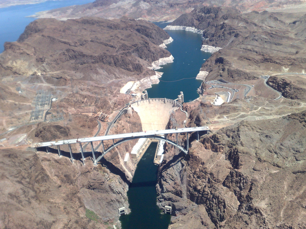 Aerial view of the Hoover Dam; Mike O'Callaghan–Pat Tillman Memorial Bridge shortly before opening